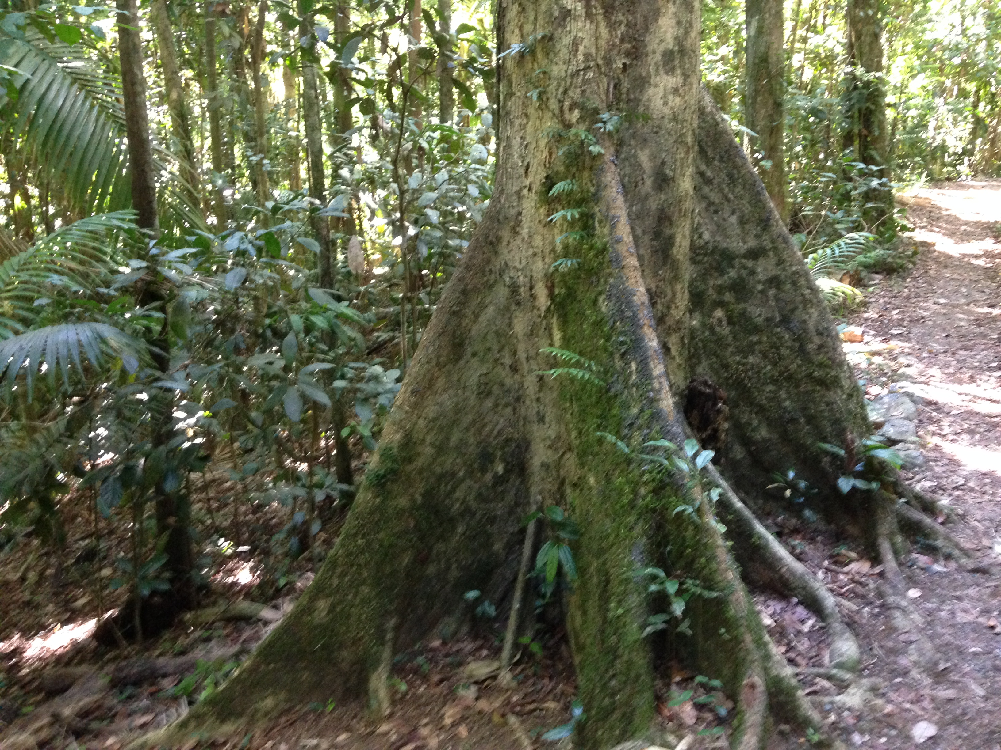 Many large trees with buttressed roots can be seen on the Cedar Grove Track in Eungella National Park